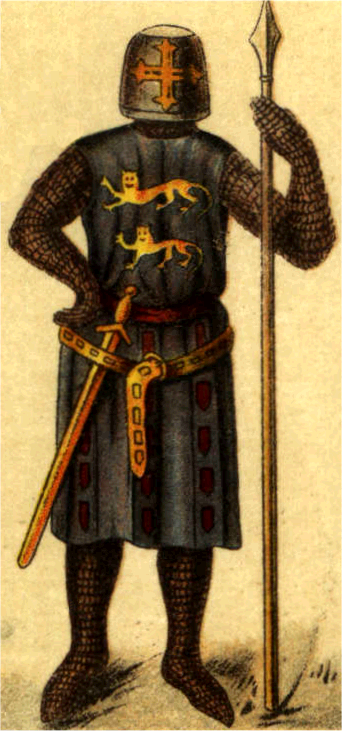 Knight (13th century)